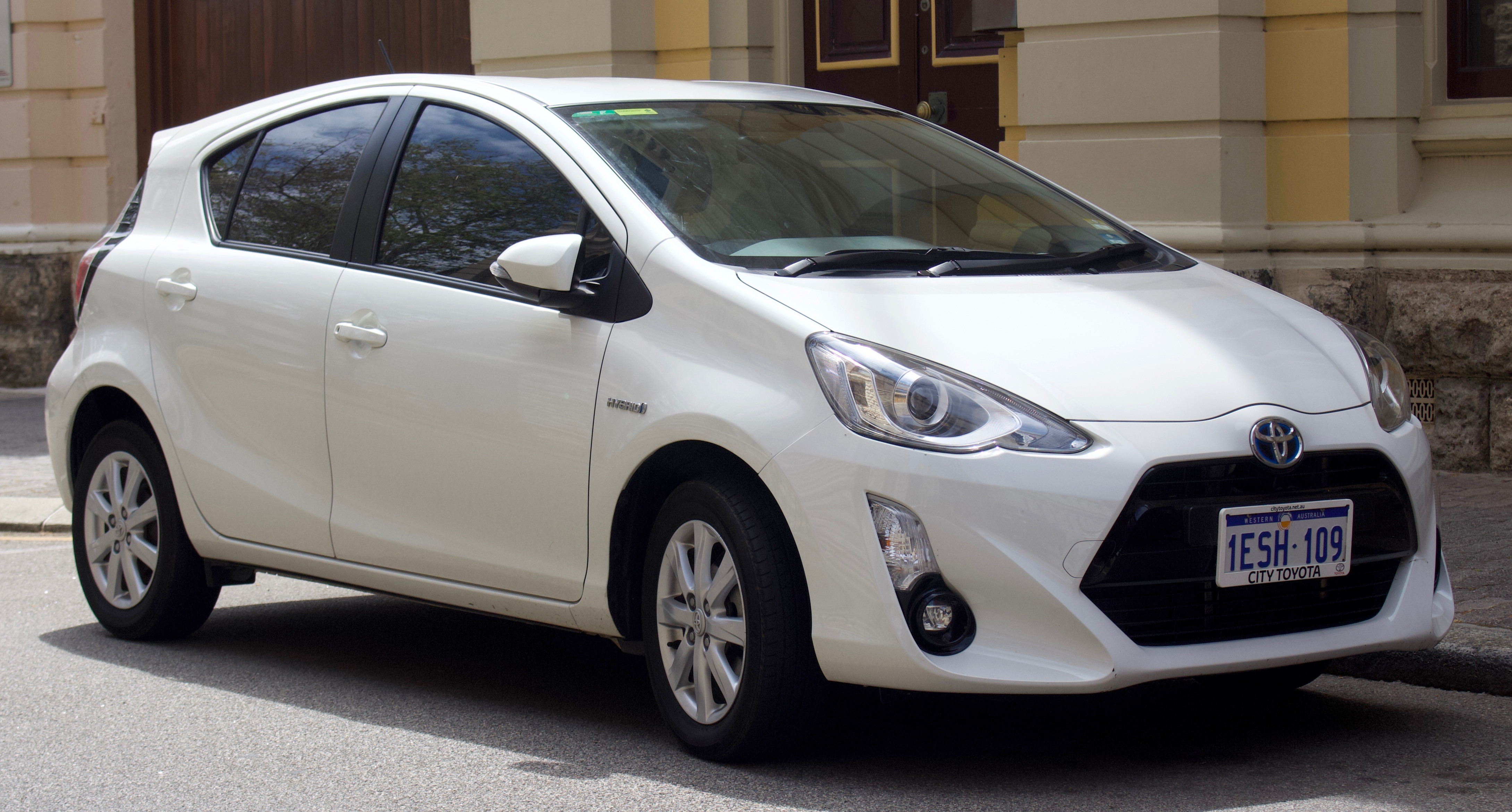 2015 Toyota Prius C (NHP10R MY15) i-Tech hatchback. i-Tech Prius Cs are easily identifiable by the chrome boot handle. Photographed in Fremantle, Western Australia, Australia.